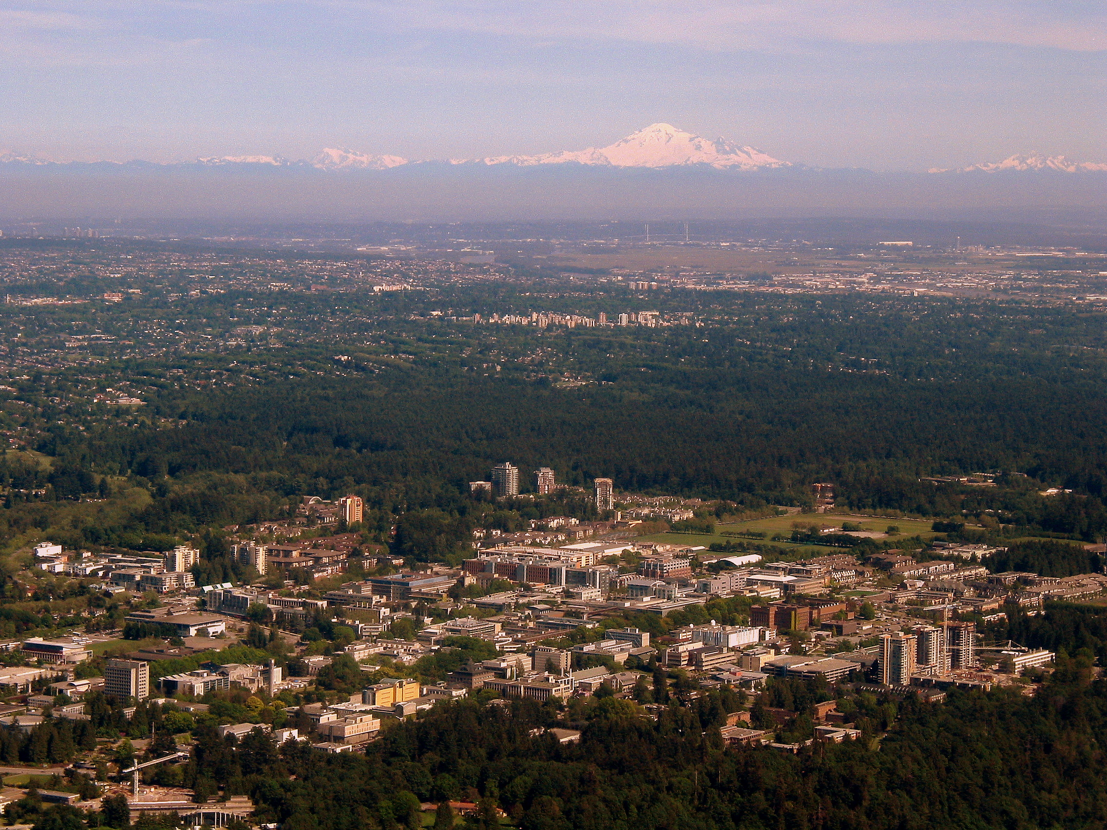 We're on approach to 12.